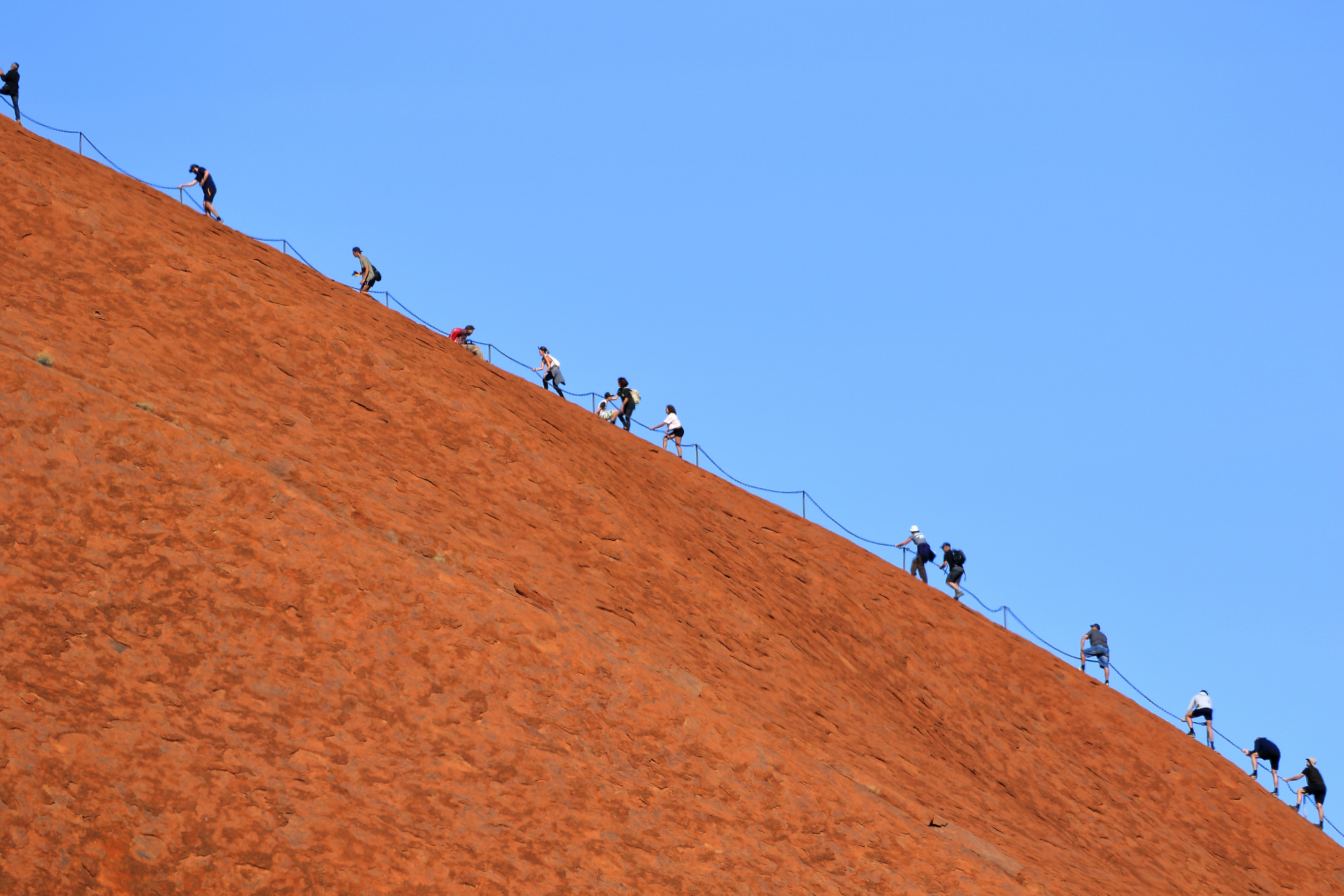 Climbers on Uluru using the chain for safety, photographed in July 2017.